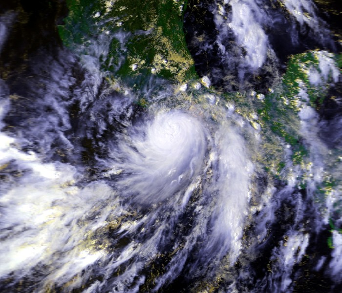 This image shows Hurricane Pauline at peak intensity on October 8. The storm's maximum sustained winds at the time were about 130 mph. This image was produced from data from NOAA-14, provided by NOAA.